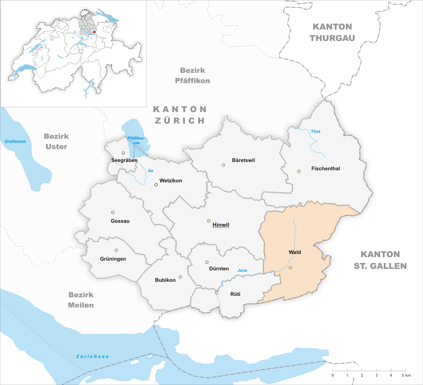 Municipality Wald